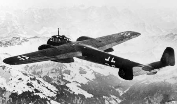 A German Dornier Do 215B bomber in flight. The Do 215 was fitted with Daimler Benz DB 601 V12 piston engines.